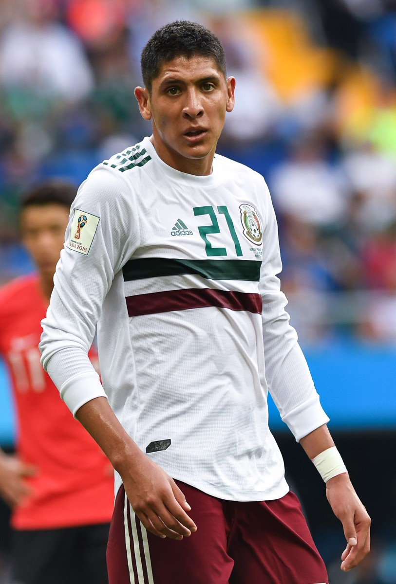 Edson Alvarez